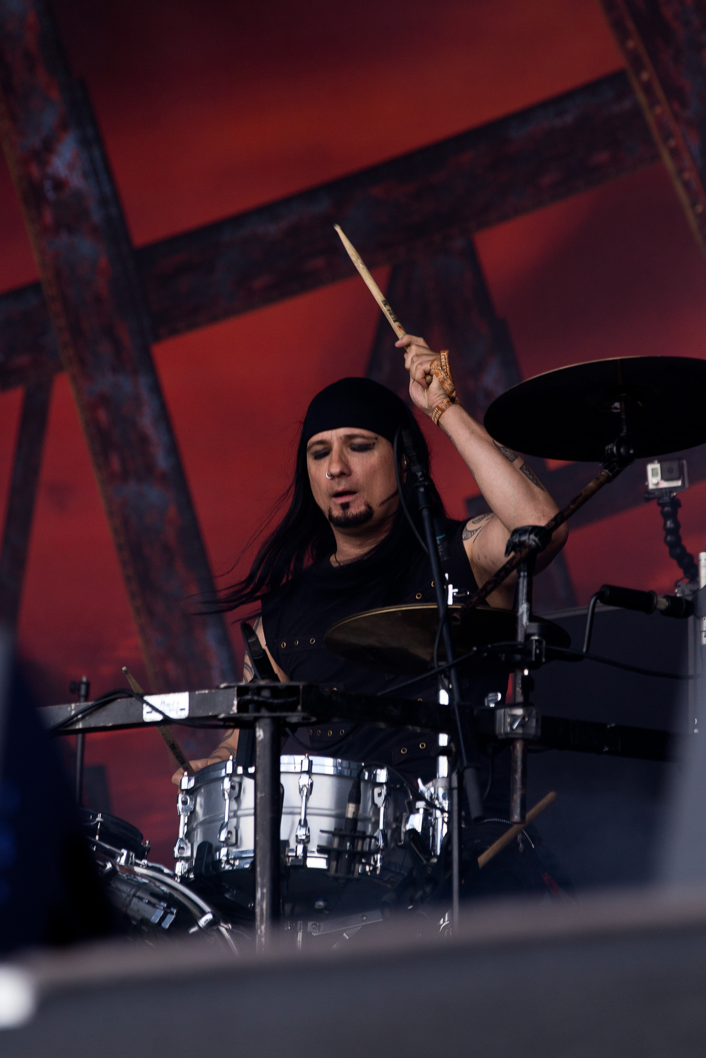 The German Neue Deutsche Härte band Heldmaschine at the Rockharz Open Air 2016 in Ballenstedt/Germany.